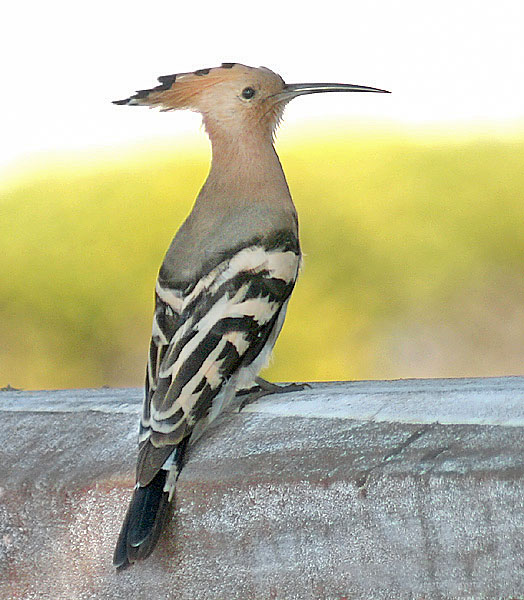 Common Hoopoe Upupa epops in Puri, Orissa, India.